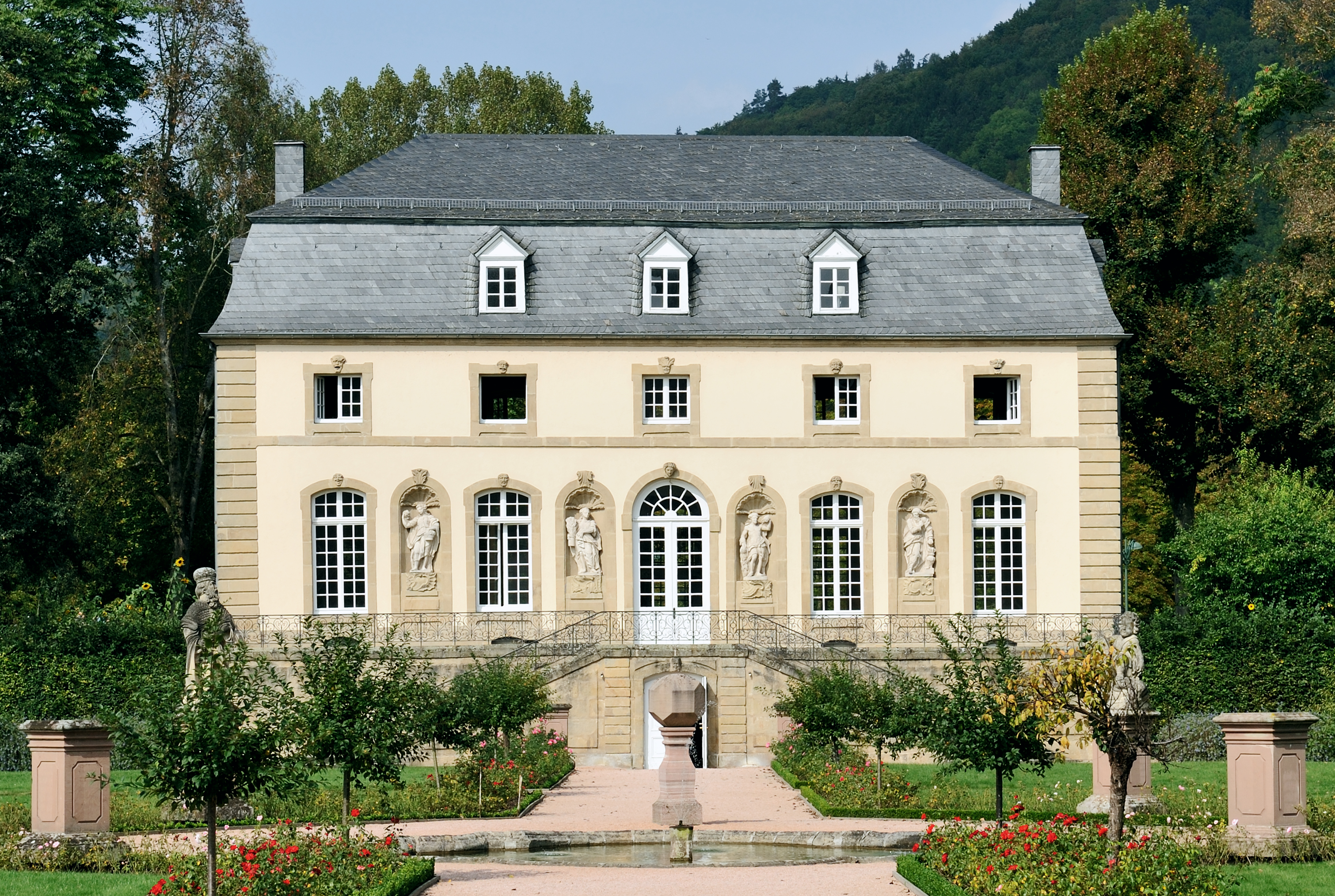 Orangery in Echternach, Luxembourg